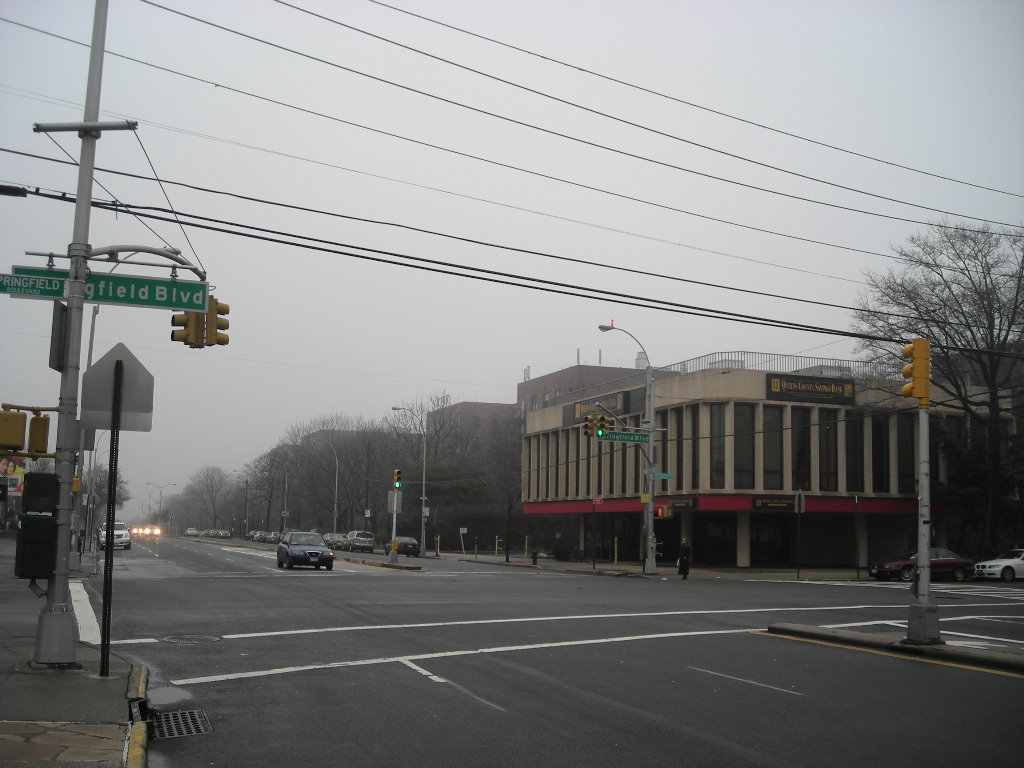 A view of Union Turnpike going through Oakland Gardens, Queens, NY.